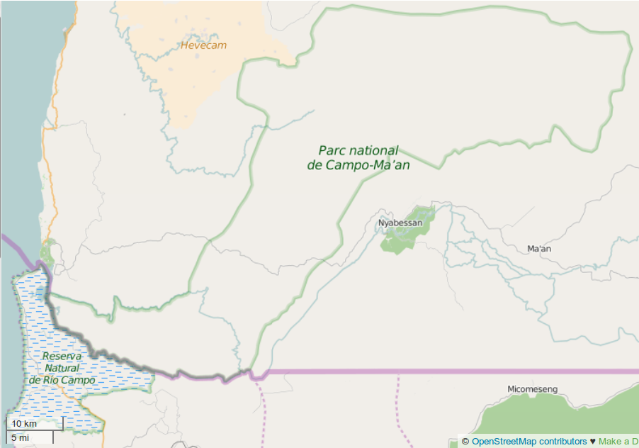 OSM map of Campo-Ma'an, Cameroon ː limits of the national park. This map may be incomplete, and may contain errors. Don't rely solely on it for navigation.